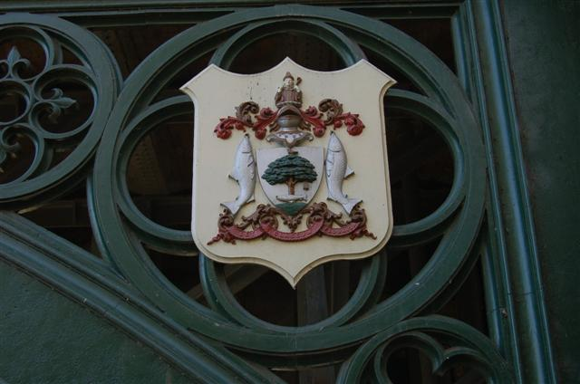 Great Western Bridge [detail]